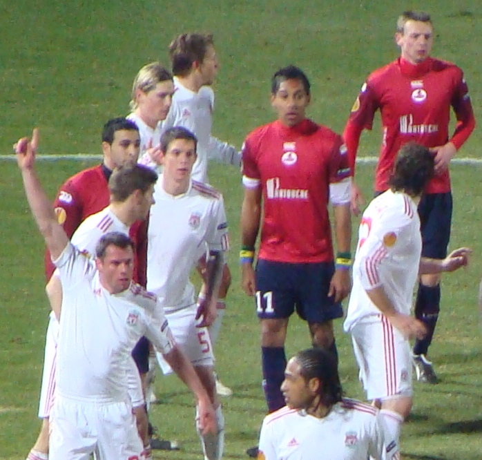 Pierre-Emerick Aubameyang (Lille vs Liverpool)